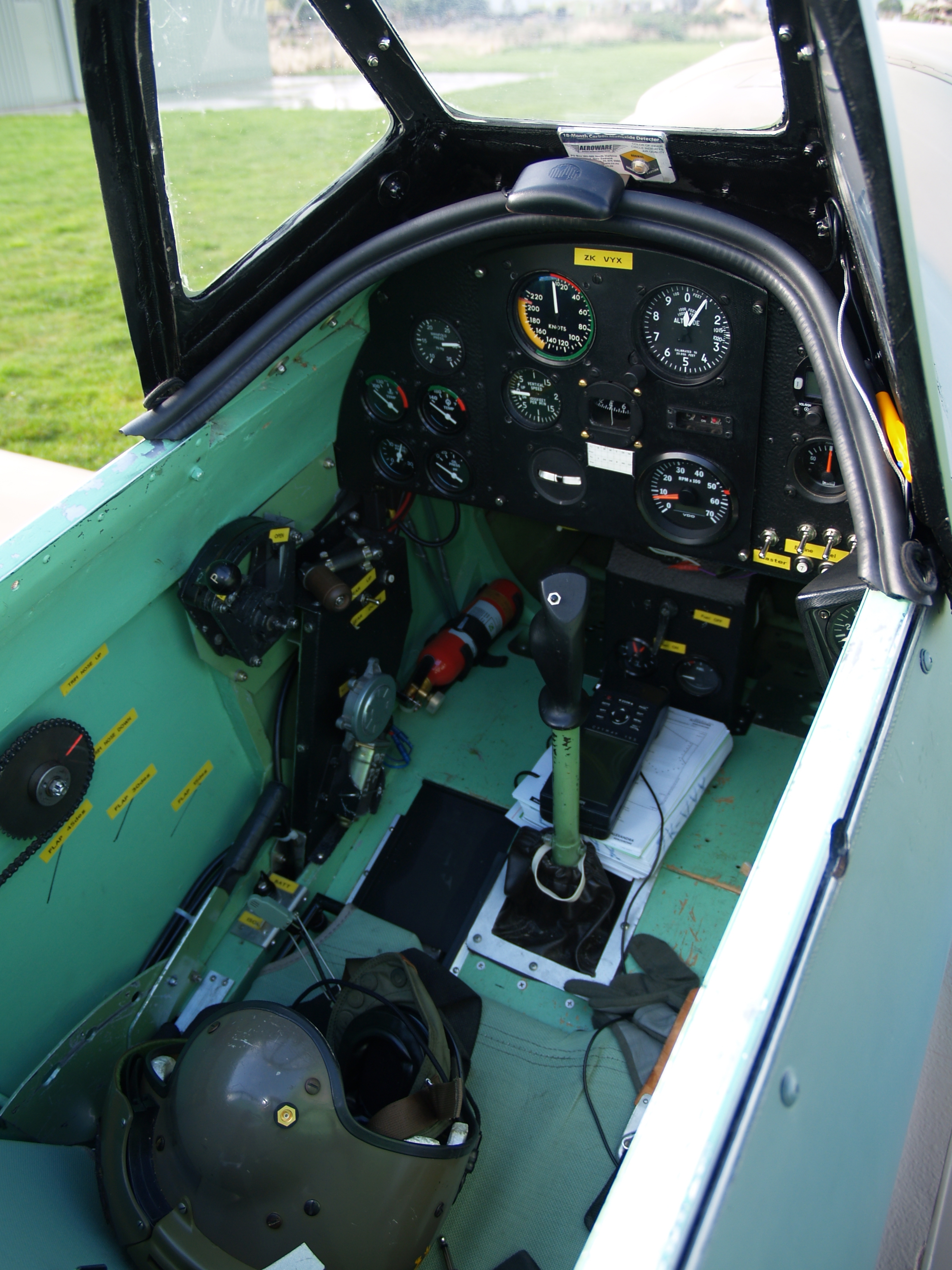 Cockpit of Bob Gibson's Sindlinger Hawker Hurricane